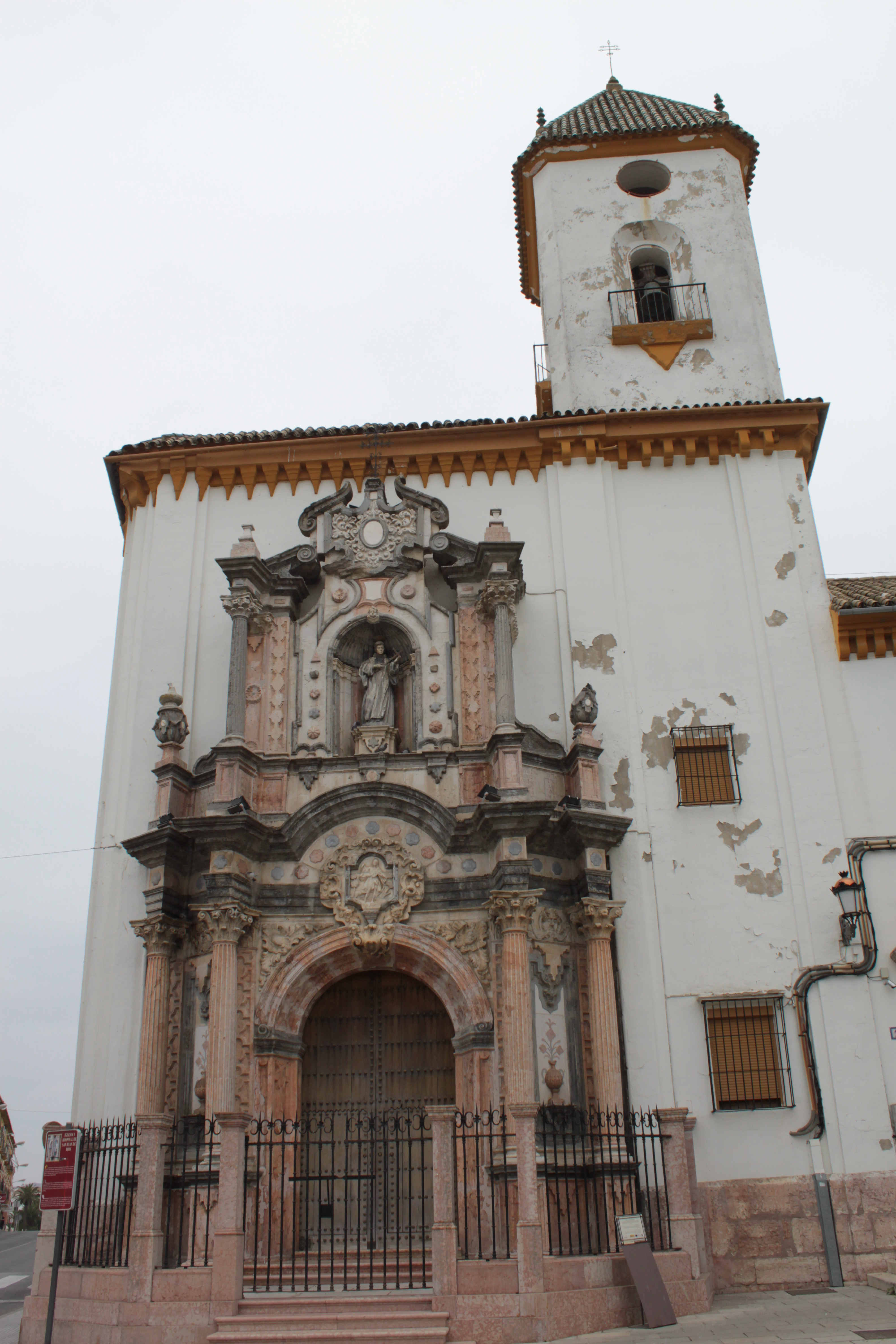 Church of Saint John the Baptist, belonging to the convent of Saint John of God. Lucena (Spain).